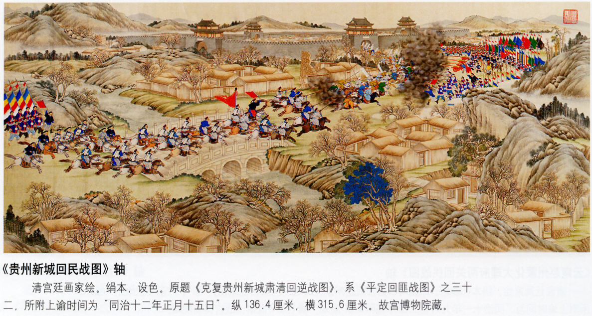 A battle of the Panthay Rebellion (1856–1873)